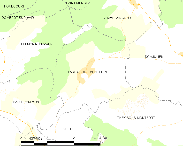 Map of French municipality Parey-sous-Montfort